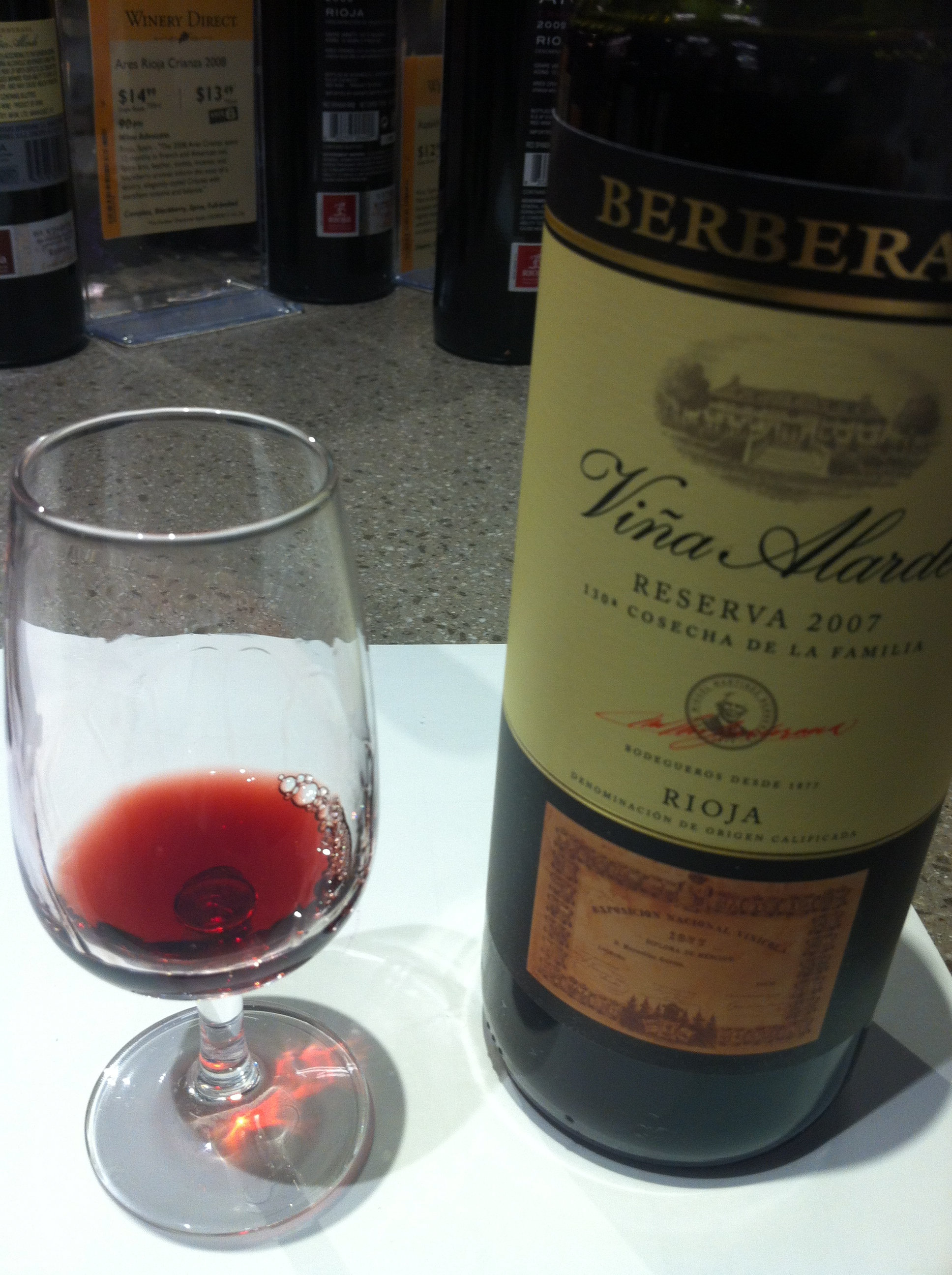 A red Spanish Reserva made mostly from Tempranillo from Rioja